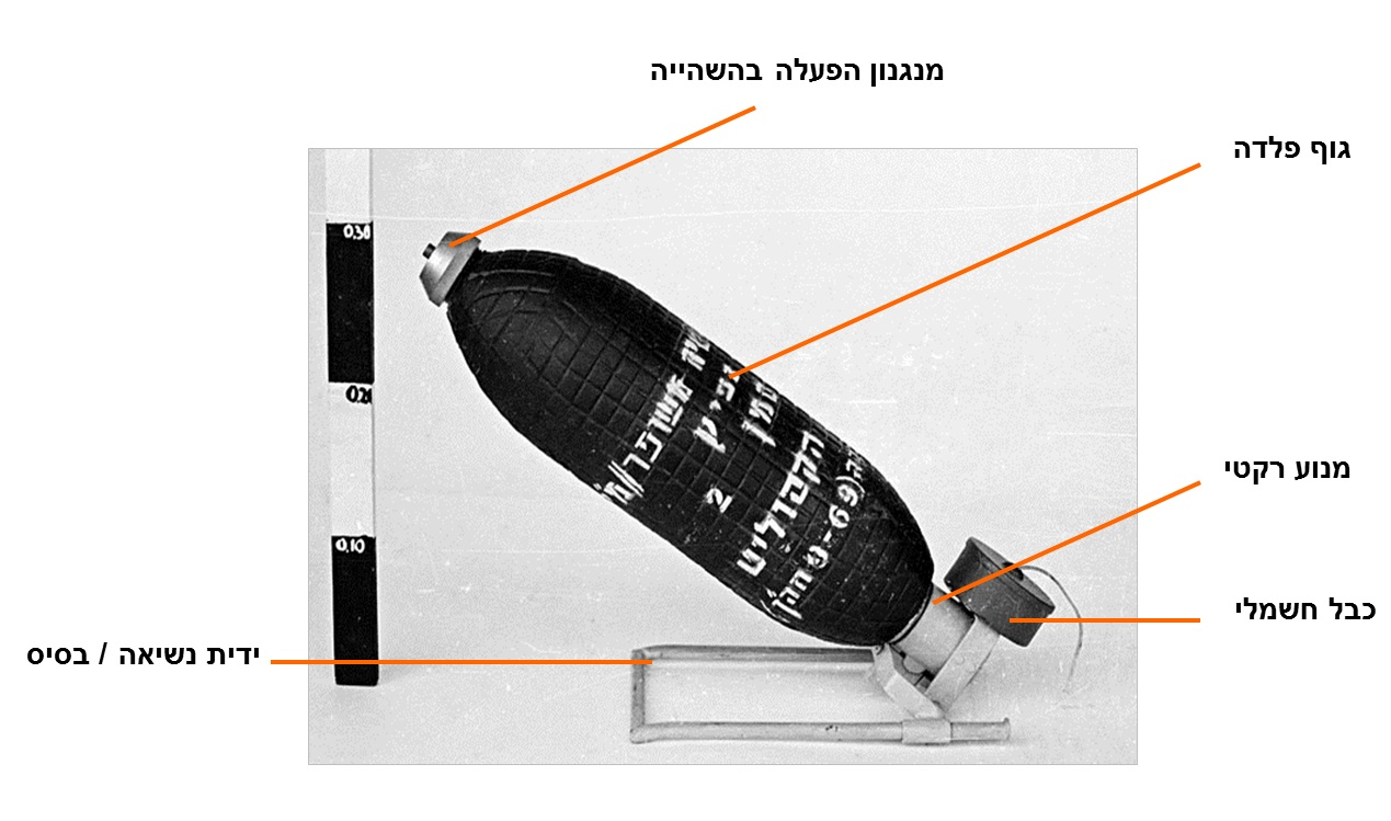 Avatiah rocket